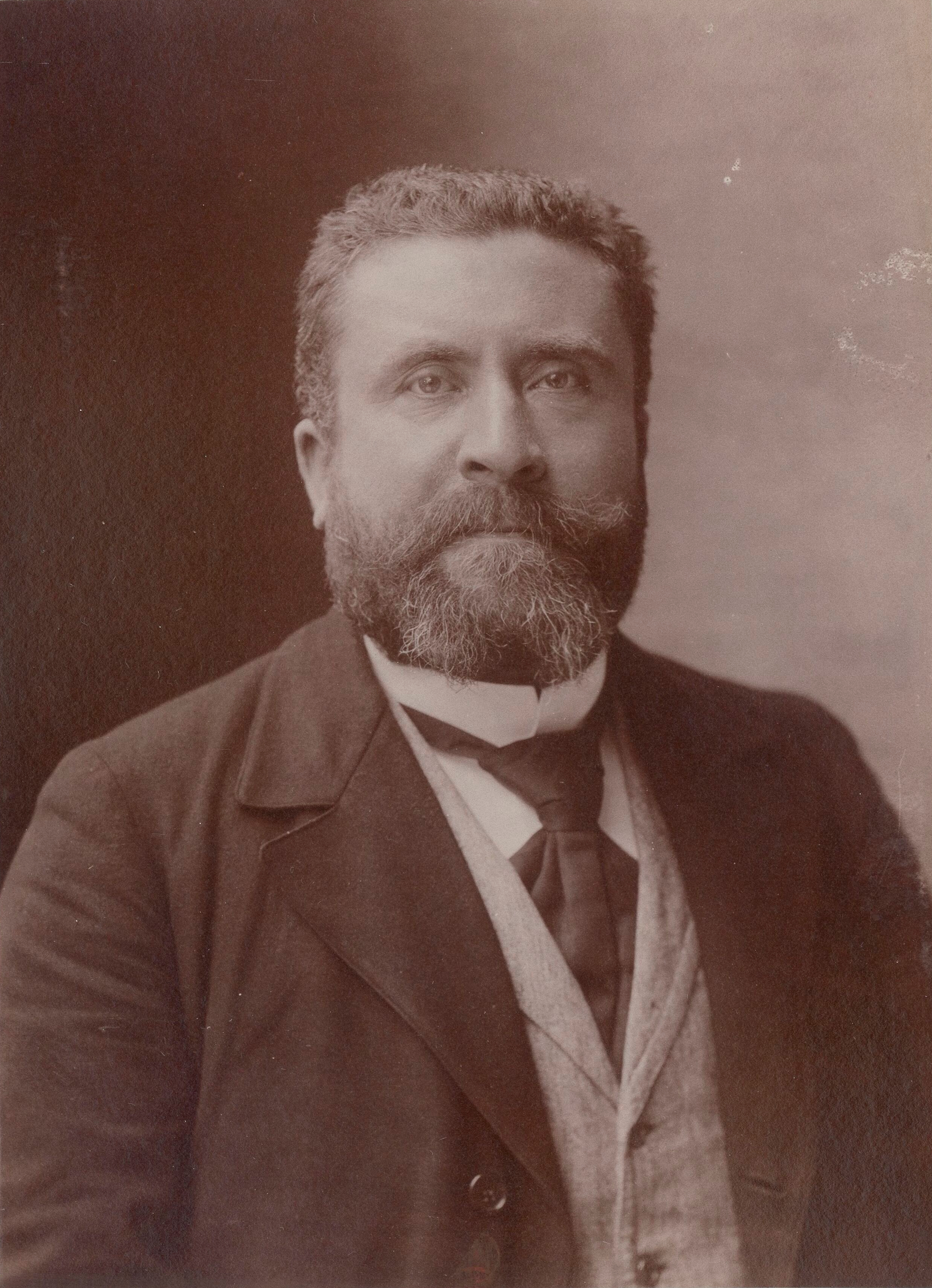 Jean Jaurès, 1904, by Nadar.